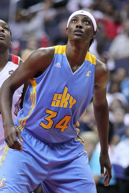 Sylvia Fowles of the Chicago Sky (at time of photo)